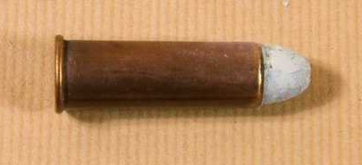 Swedish-Norwegian blackpowder rimfire cartridge model 1867 (12.17x42 mm RF).